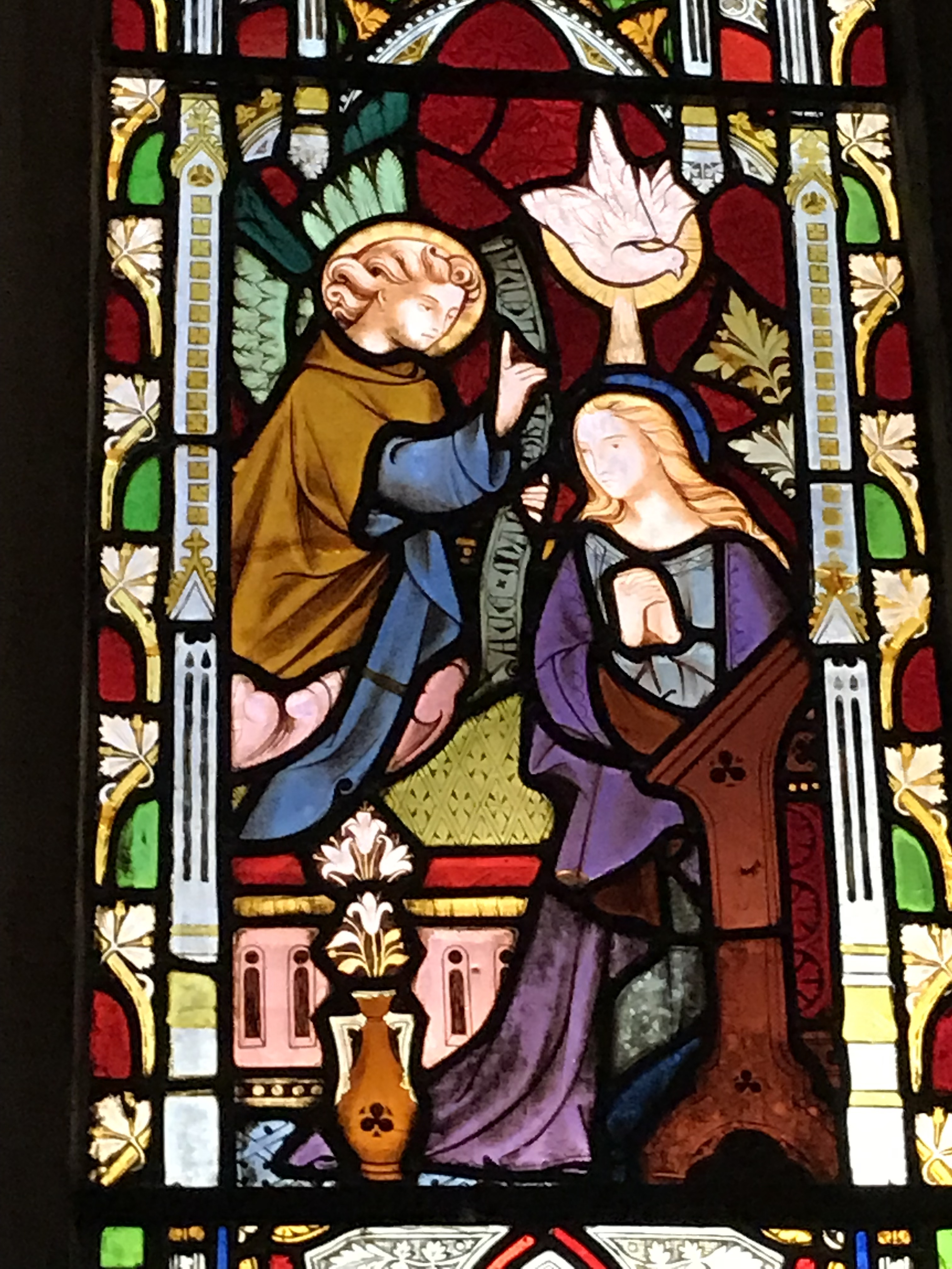 The Annunciation of Our Lady, detail of a stained glass window designed in 1857 by John Clayton and made at the glassworks in Mells, Somerset.